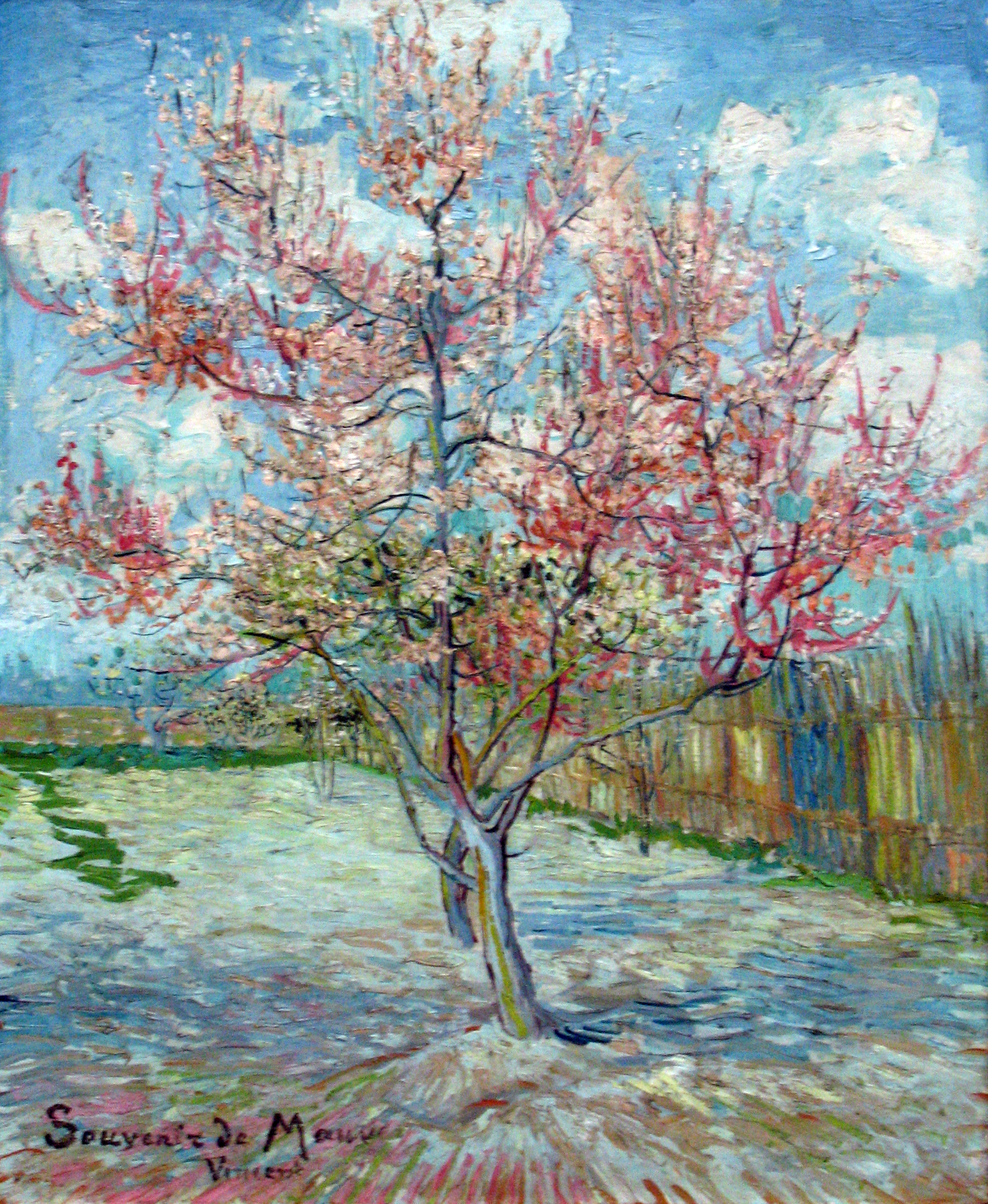 Pink peach trees ("Souvenir de Mauve")